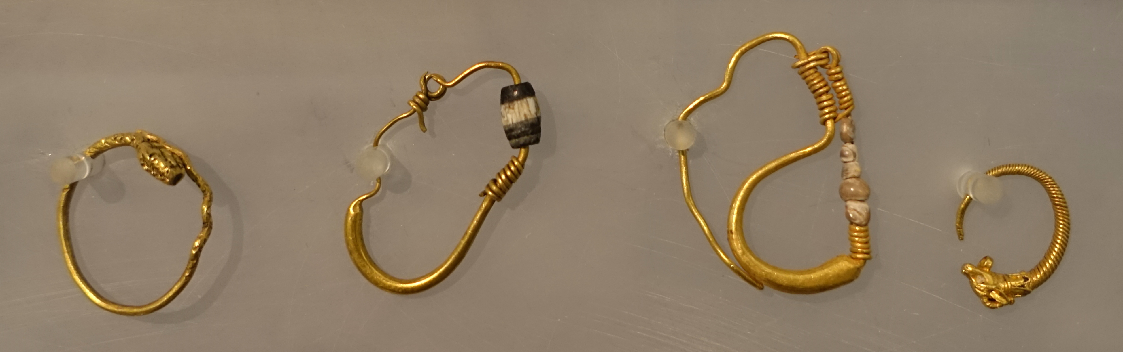 Exhibit in the Martin von Wagner Museum - Würzburg, Germany.